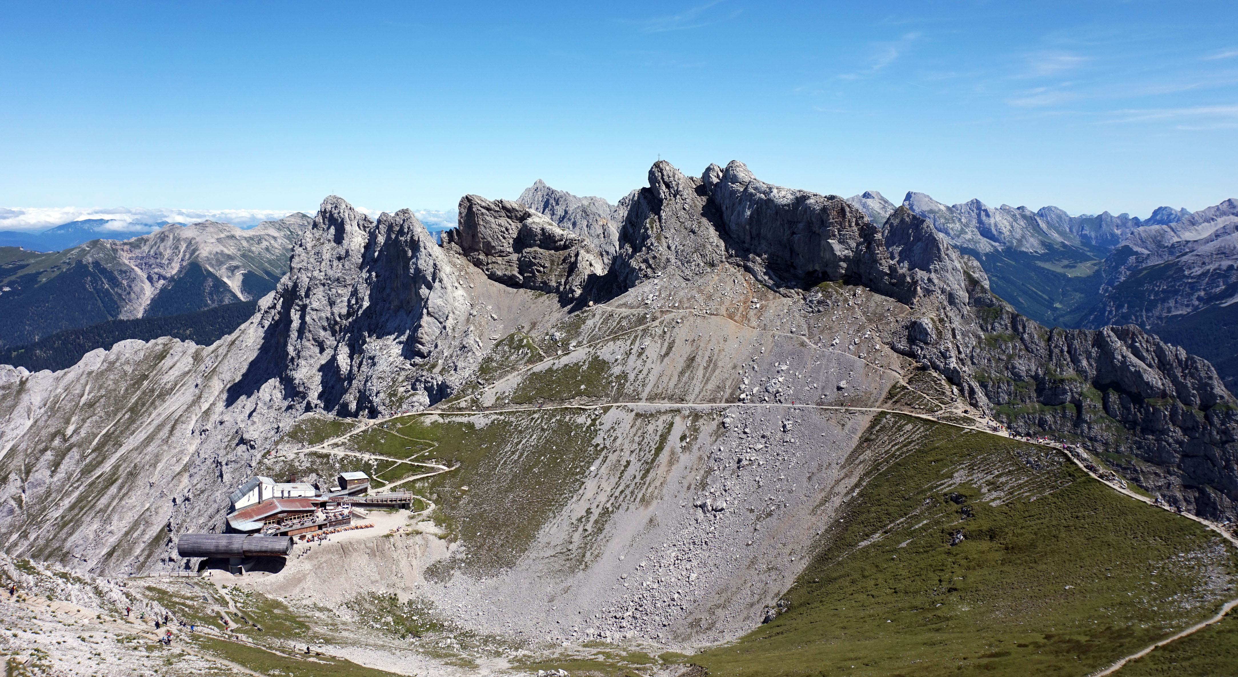 Karwendelbahn station and the mountains Karwendelköpfe and Westliche Karwendelspitze. Mittenwald, Germany. This photograph was taken with a Sony Alpha a5000.